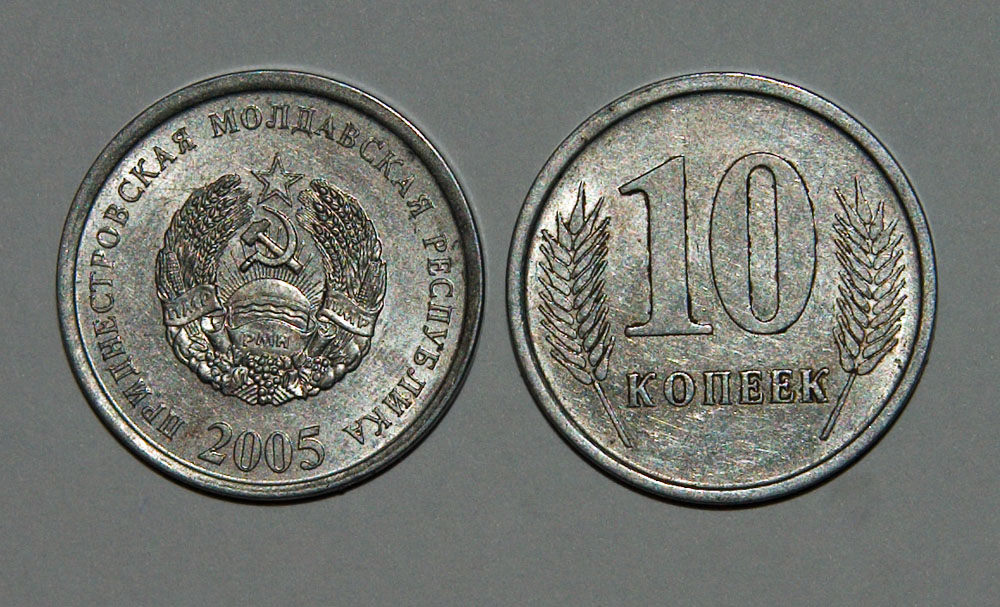 10 kopejek coin from Pridniestrowie